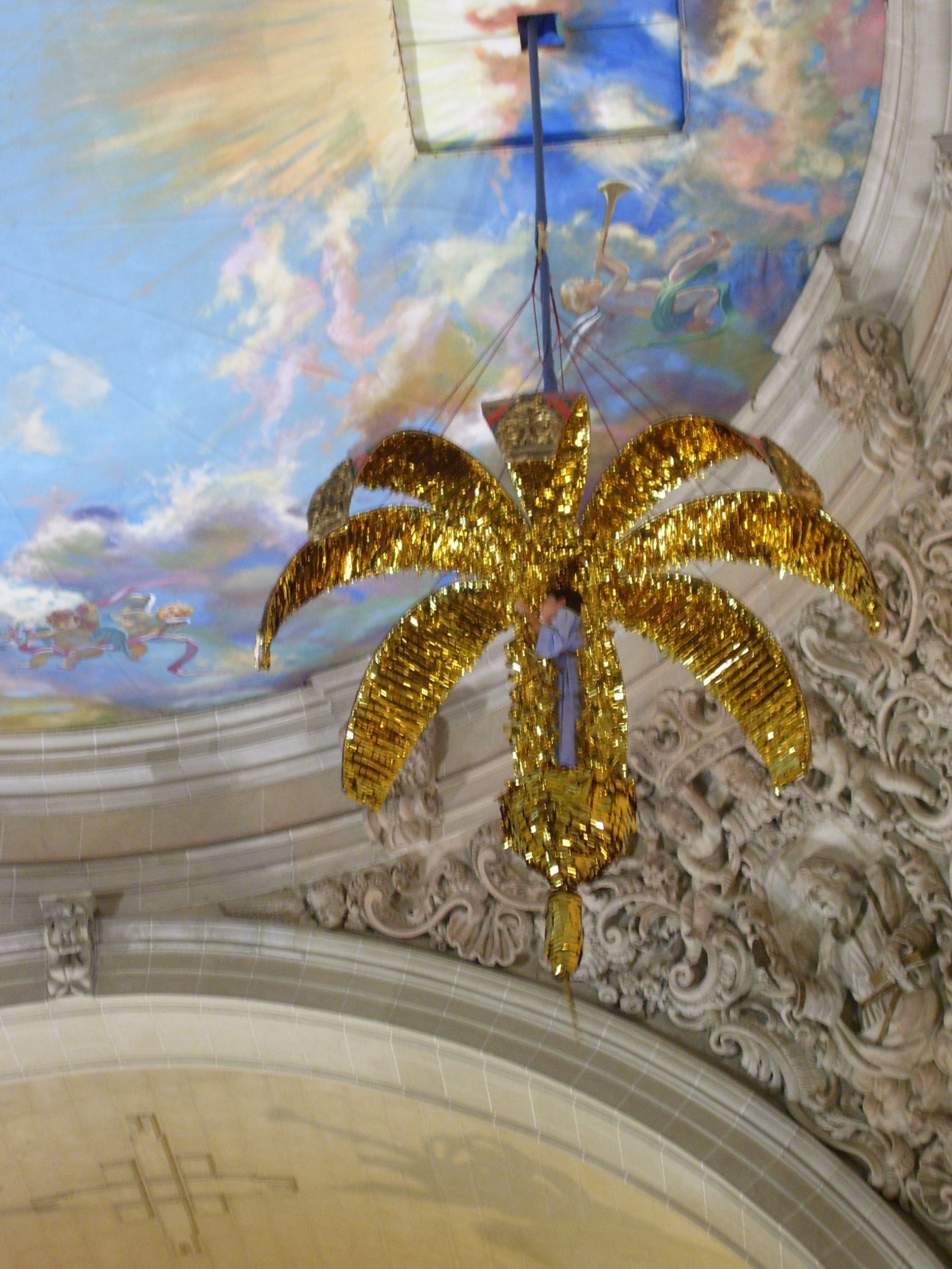 Misteri d'Elx scene